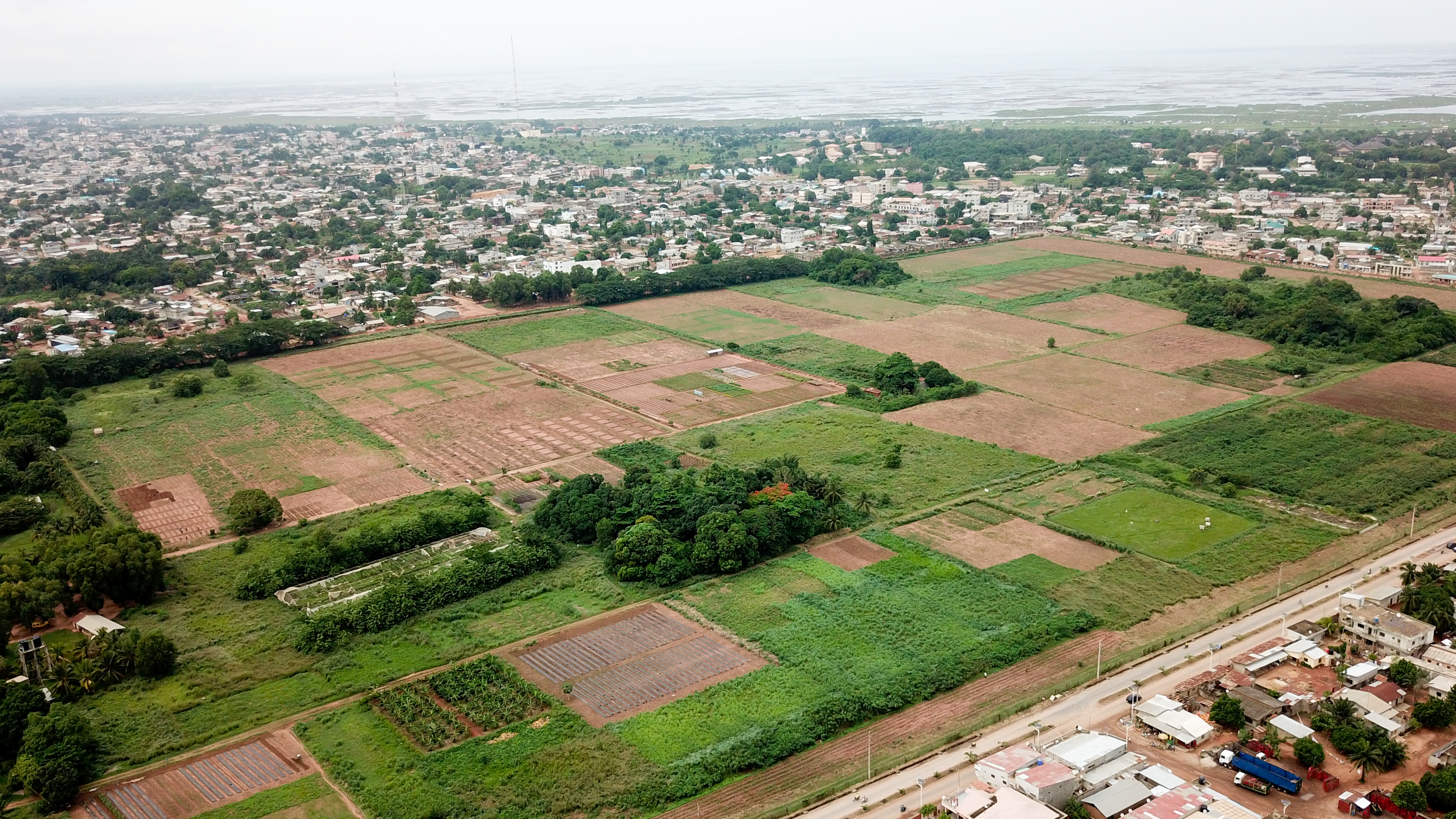 A photo of the IITA's non-profit cultural area that offers agricultural innovations to meet the most pressing challenges of Africa: hunger, malnutrition, poverty and degradation of natural resources.